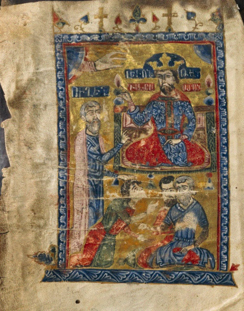 King Levon V (effigies of a courtier and civil men in their authentic costumes are also seen), Venice, Ms. 107, Assises d'Antioche, 1331 Cilicia Painter: Sarkis Pitzak